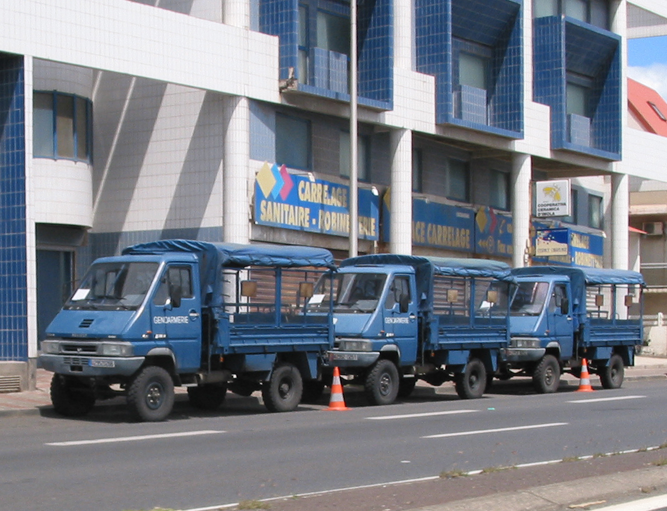 French gendarmerie mobile vehicles. WHERE?